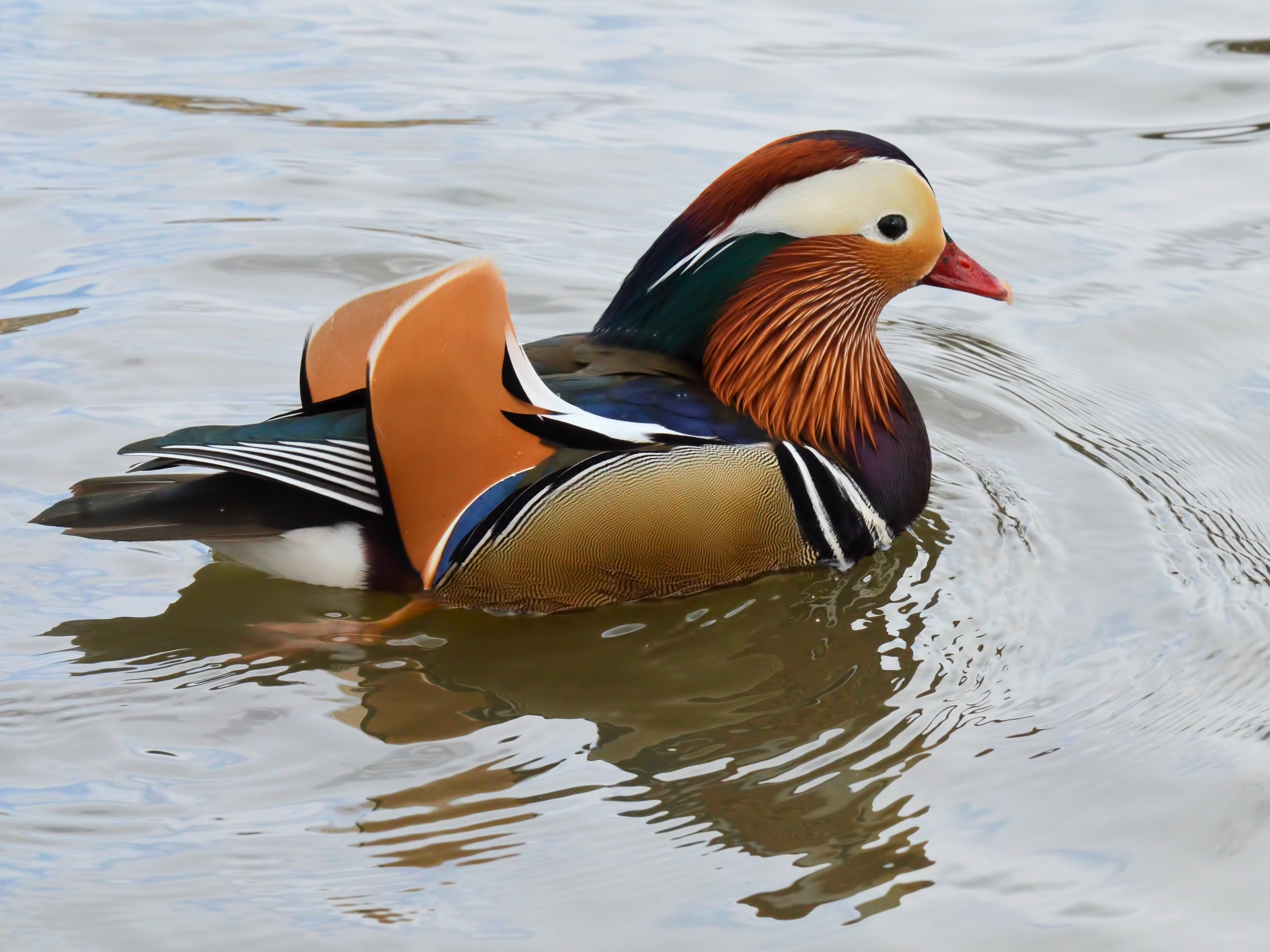 Male Mandarin Duck Kew Gardens, London, UK.